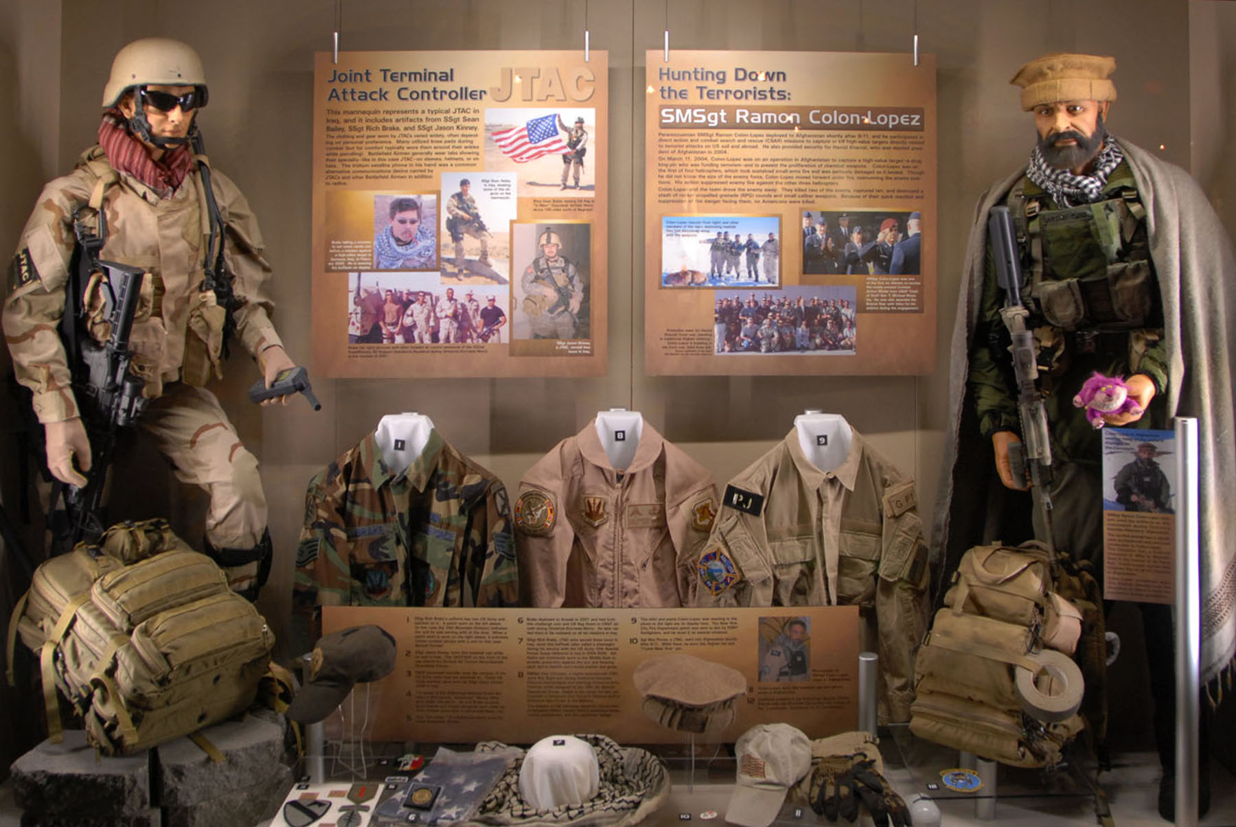 DAYTON, Ohio - Part of the Warrior Airmen exhibit on display in the Cold War Gallery at the National Museum of the U.S. Air Force. (U.S. Air Force photo)